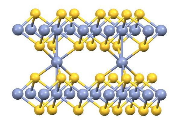 From atomic coordinates published by Jellenik et al in 1957 Acta Cryst